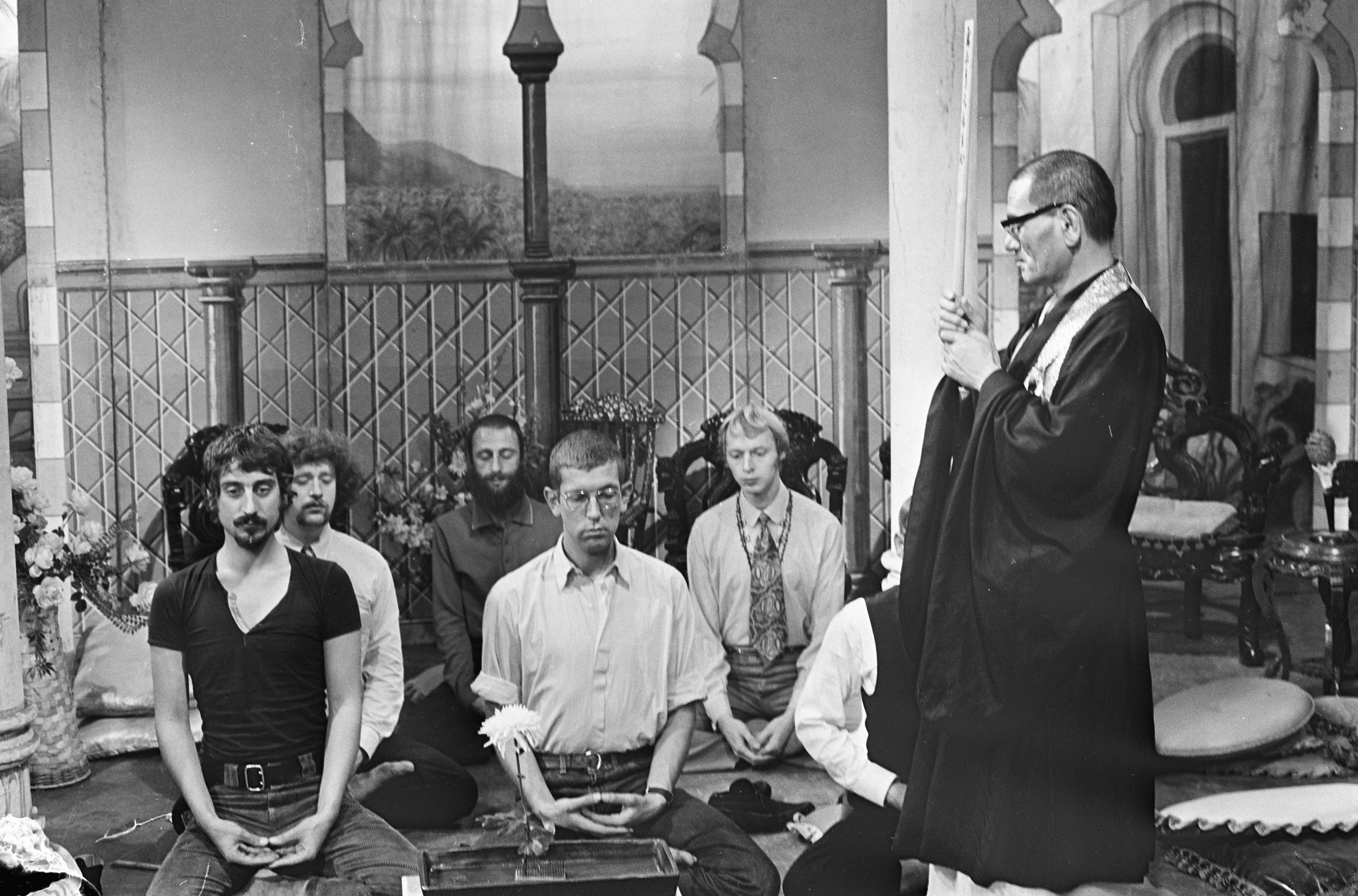 "Hoepla", Dutch television programme VPRO. Right to left: Japanese Zen master Taisen Y. Deshimaru, Simon Vinkenoog, Mothers of Invention (??) 22 September 1967